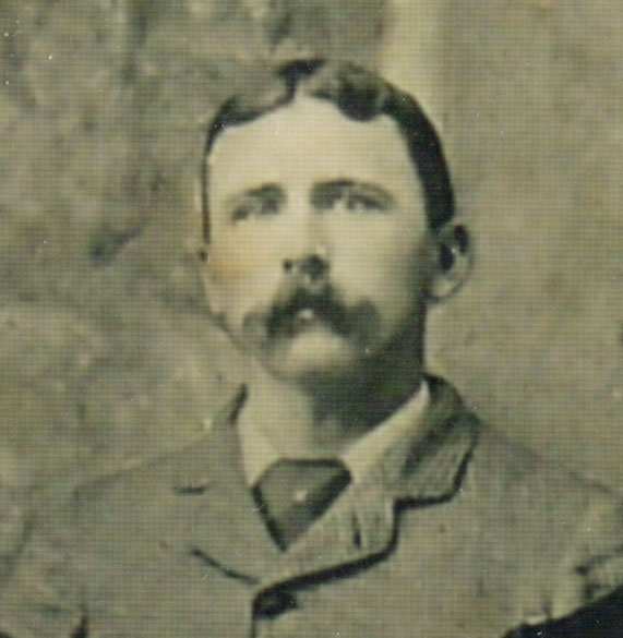 Frank Hadow, British tennis player, tennis Wimbledon singles Tennis champion 1878